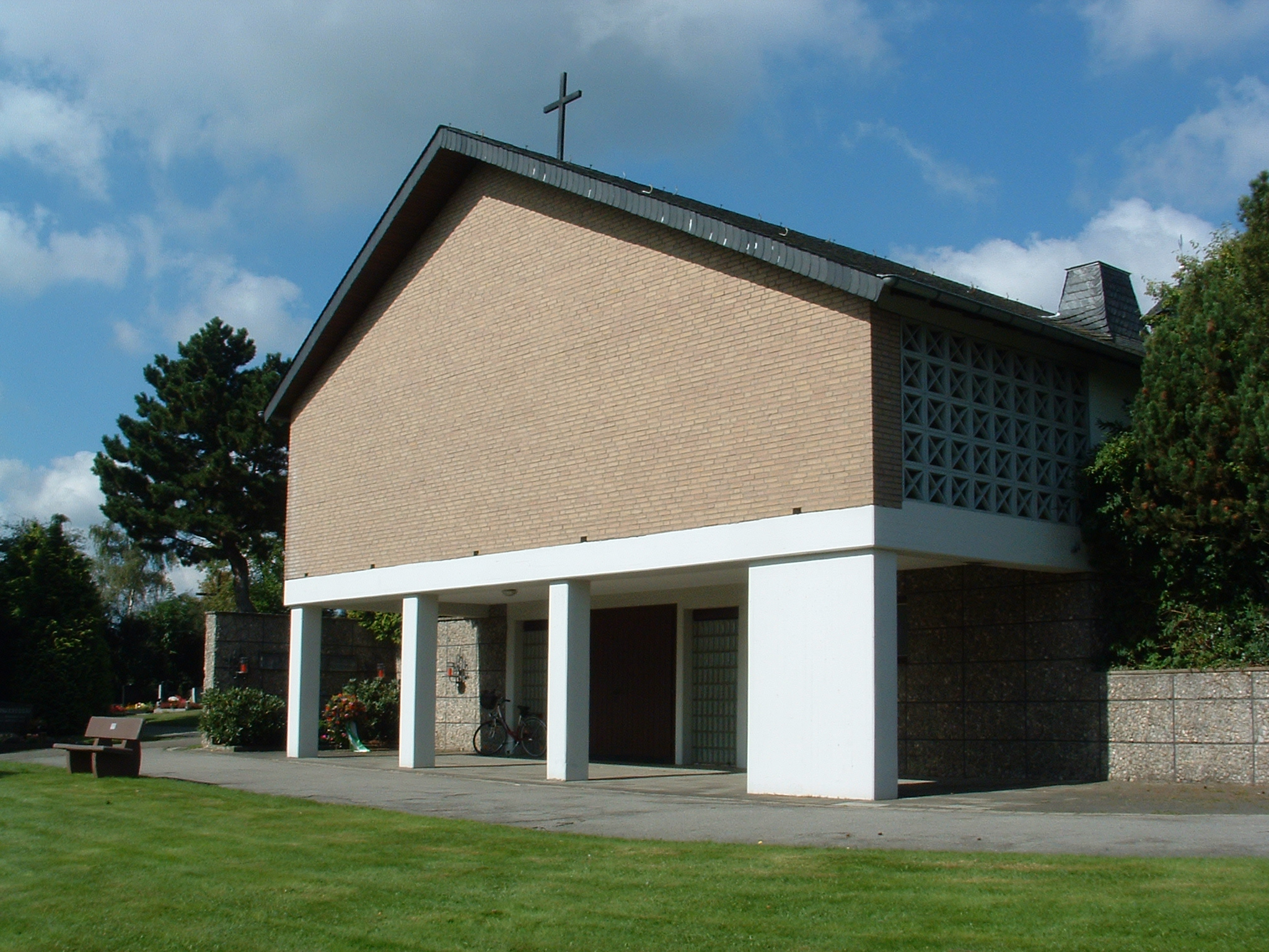 chapel Brandenberg (Hürtgenwald)